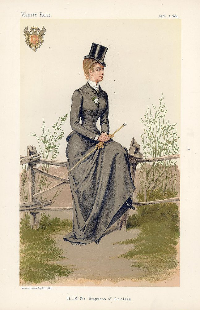 Caricature of Elizabeth the Empress of Austria.